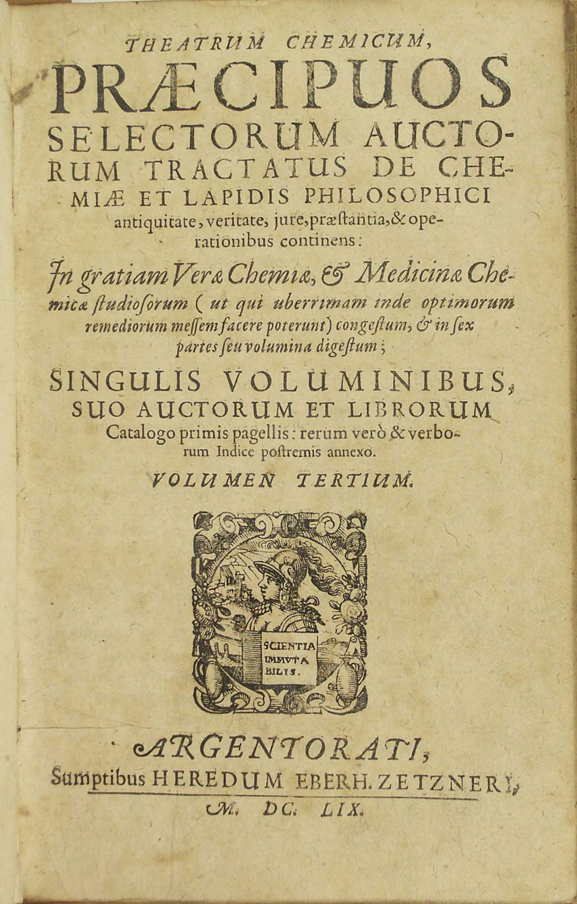 Page 1 of "Theatrum Chemicum", Volume III, originally printed 1602 in Oberursel, Germany by Lazarus Zetzner (Zetznerni, Zetznerus)